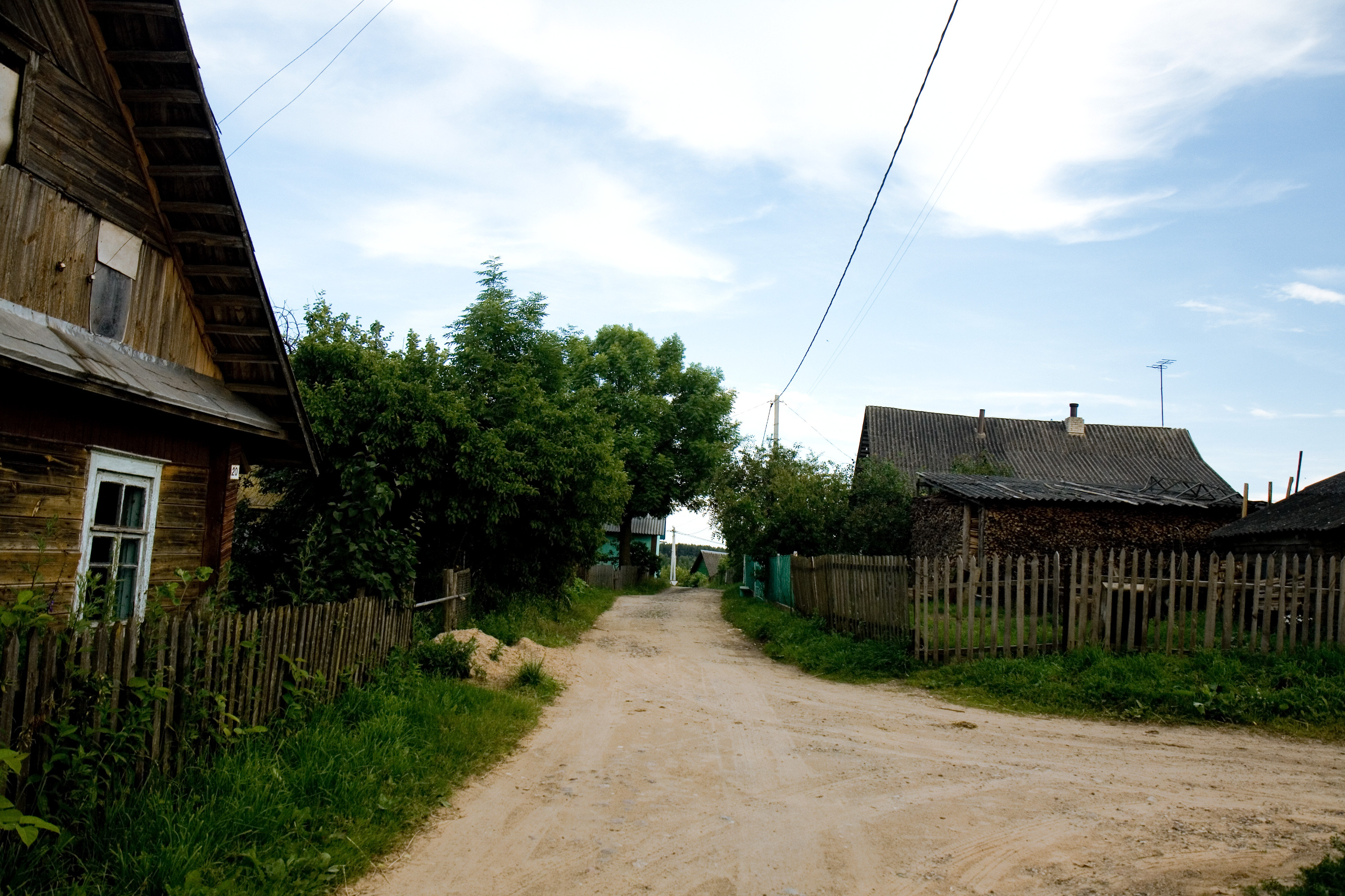 Kačarhi village, Minsk province, Belarus.